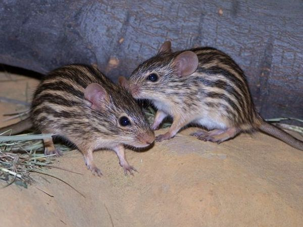 Lemniscomys barbarus This image was uploaded to Hungarian Wikipedia by User:Azay on 20 February, 2007, and was uploaded to Commons by ElinorD on 4 May 2007. The original file was at Kép:Lemniscomys barbarus01.JPG.